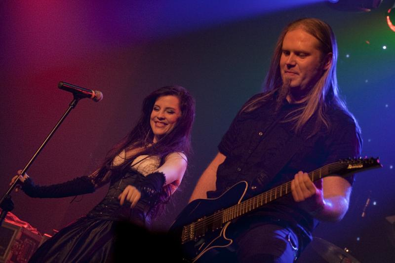 Sirenia (Gothic metal band)